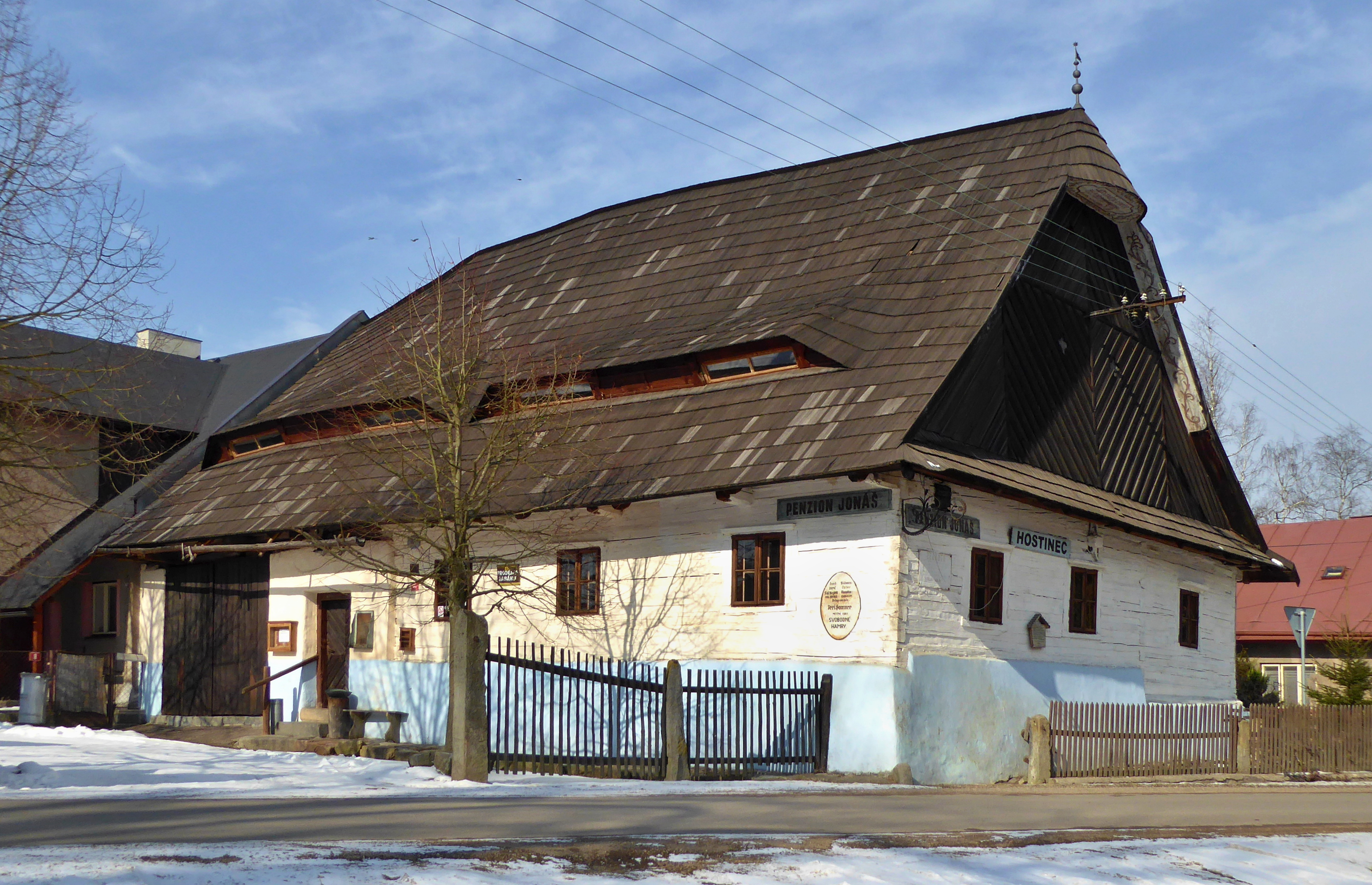 Countryside pub and cultural monument of the hamlet Svobodné Hamry, part the village of Vysočina. The timbered building in the 18th-century style (a year 1794), but the original building is older (a year 1613). Photo location: Czechia, Pardubice Region, village Vysočina, small hamlet Svobodné Hamry, Kameničská Highlands.